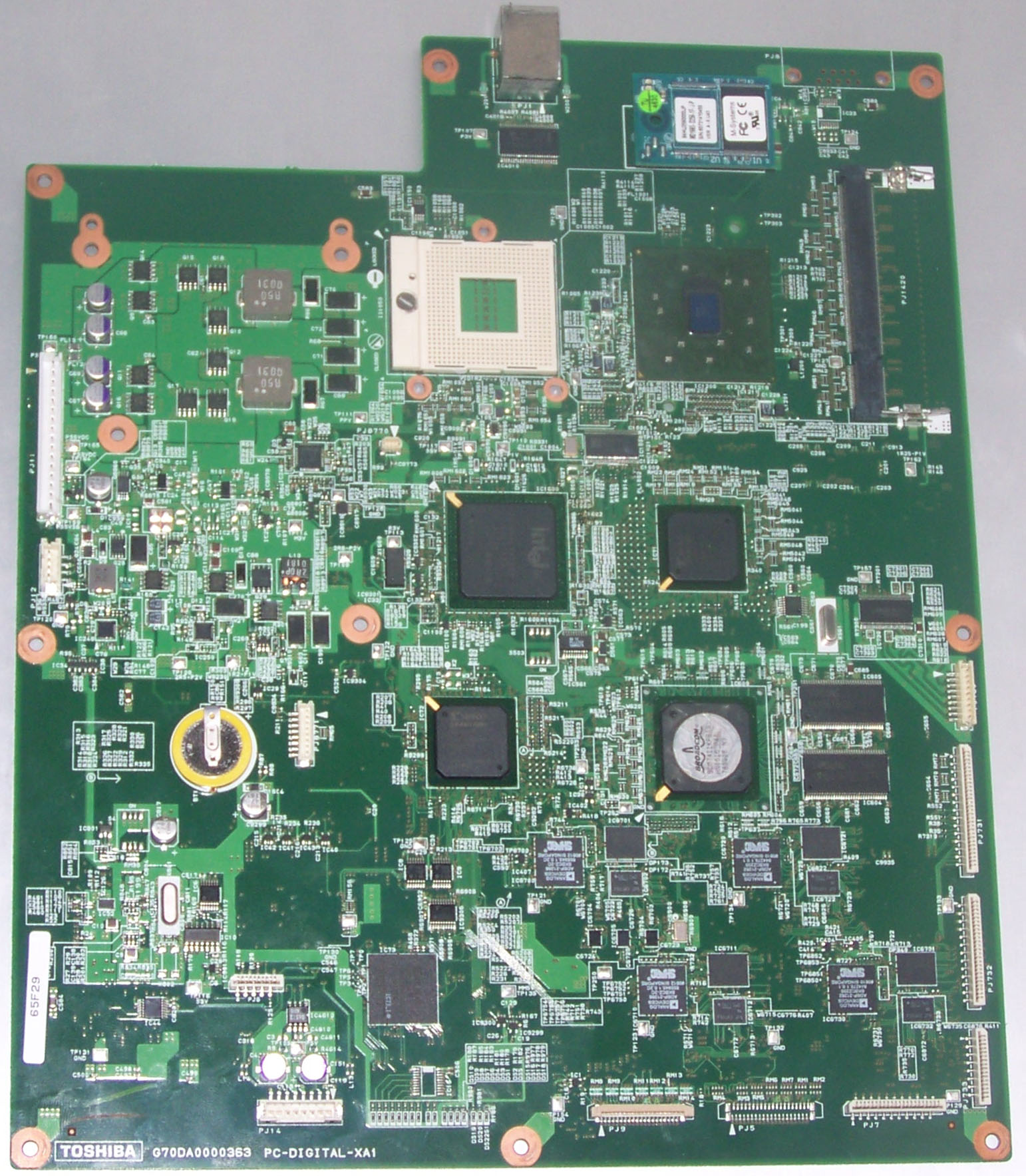 Motherboard of Toshiba HD-A1